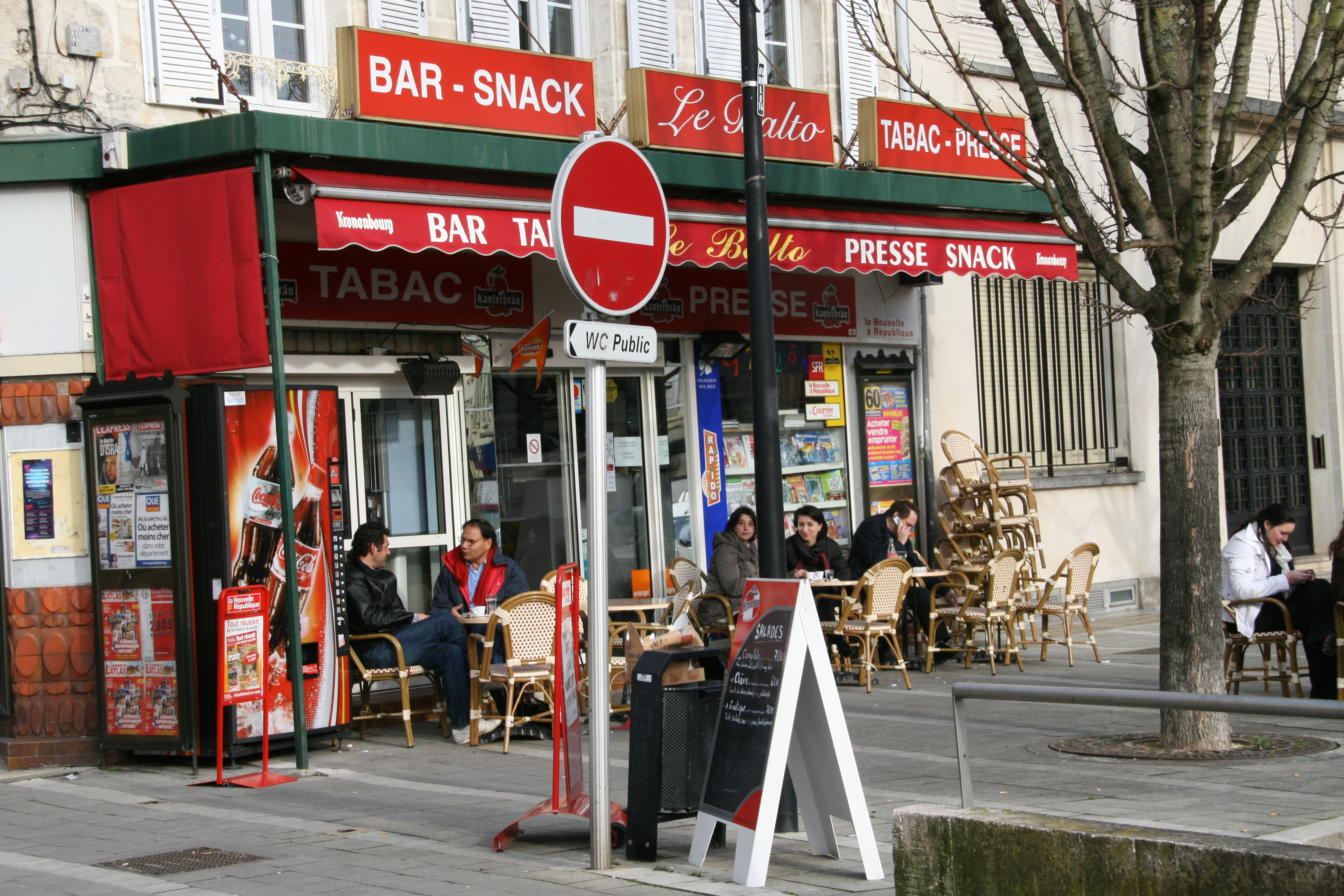 Winter Luncheon outside a busy Presse/Tabac/Bar Le Balto in Place Saint Martin, Niort, France.